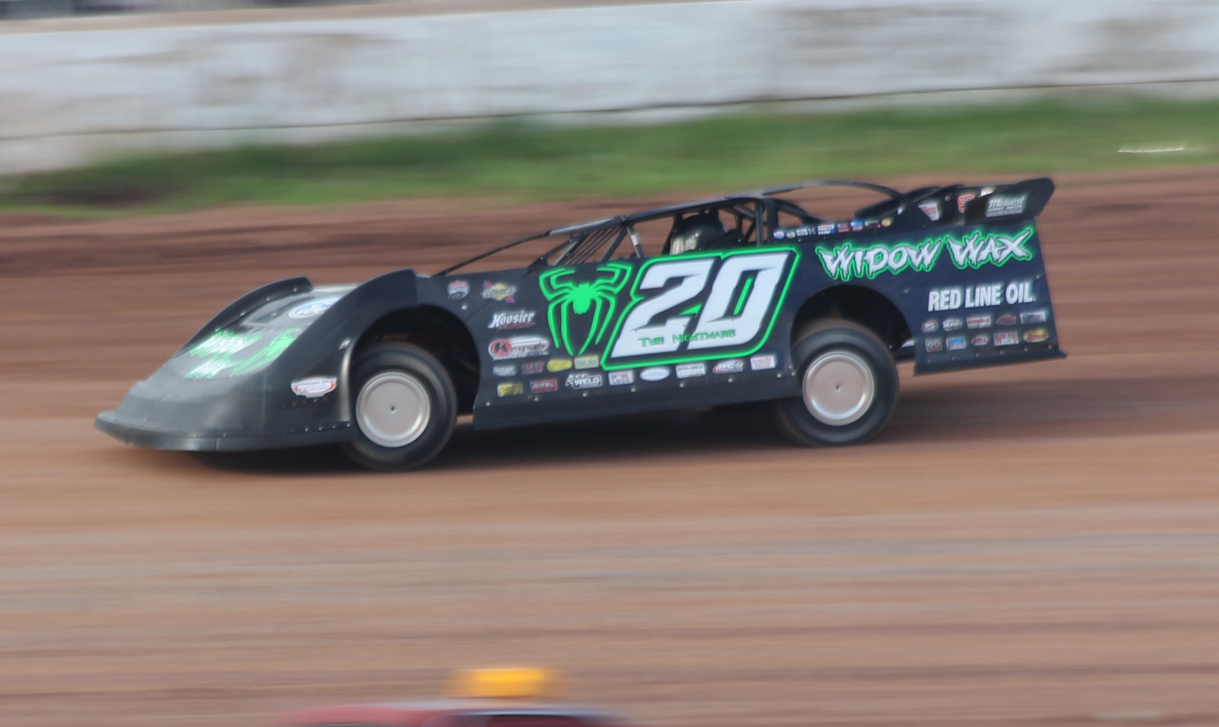 The Lucas Oil Late Model Dirt Series car of Jimmy Owens (racing driver) at the Oshkosh Speedzone on the Sunnyview Expo Center grounds.